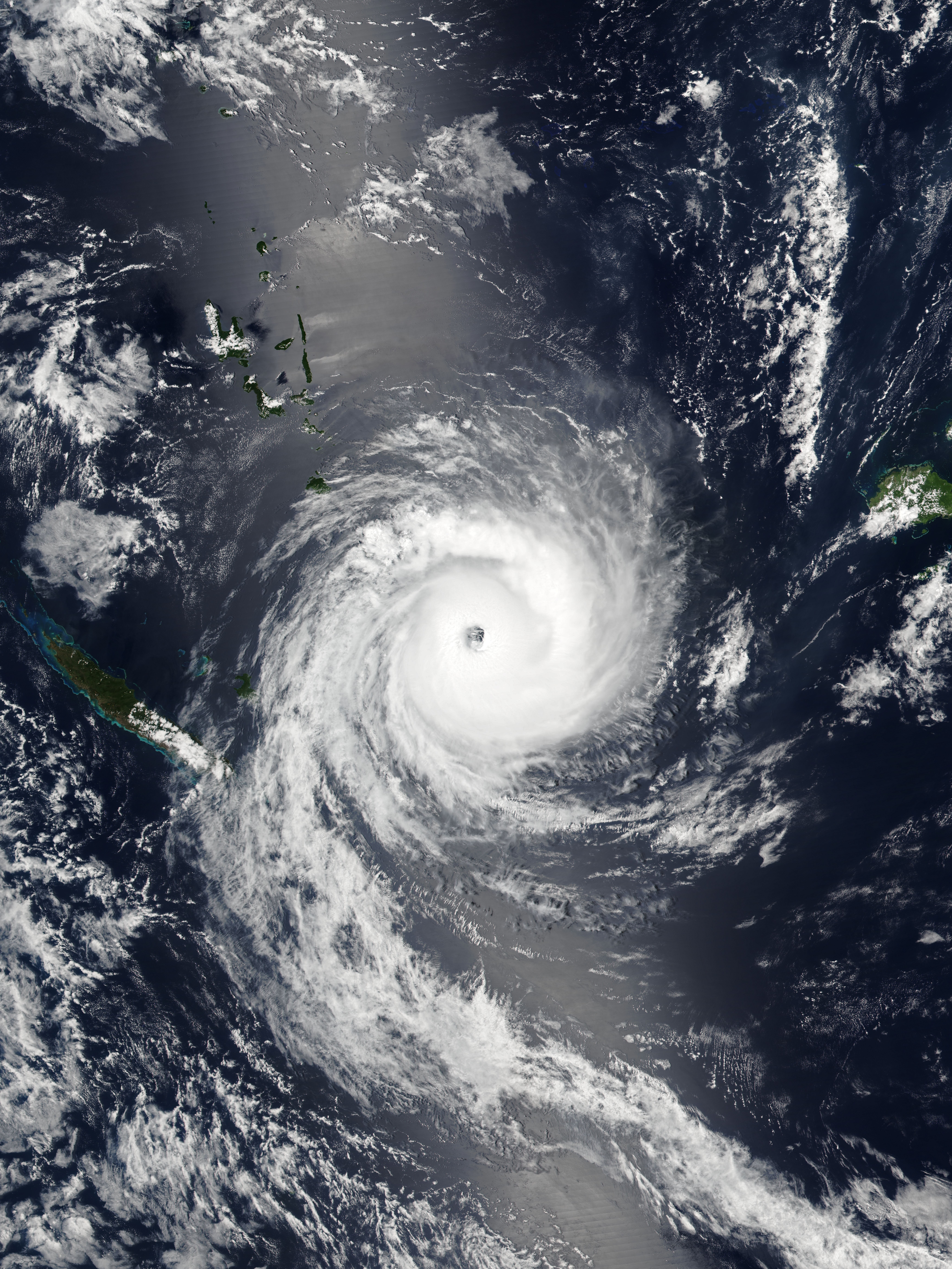 Severe Tropical Cyclone Ula east of the Tafea Province of Vanuatu on 10 January 2016.